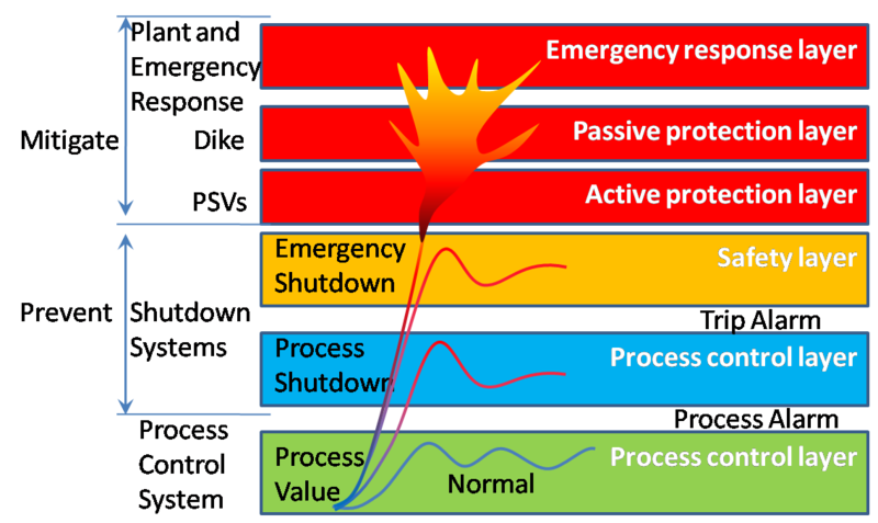 Industrial safety system